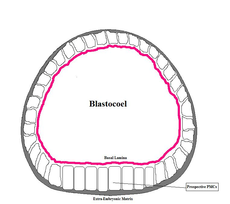 A diagram of a sea urchin blastula prior to the ingression of PMC. Shows monolayered epithelium surrounding a blastocoel.